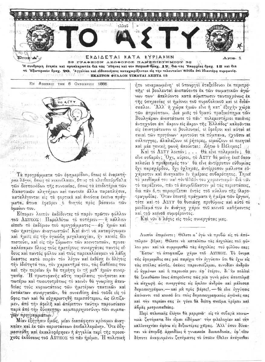 To Asty newspaper, first page of the first issue 1885